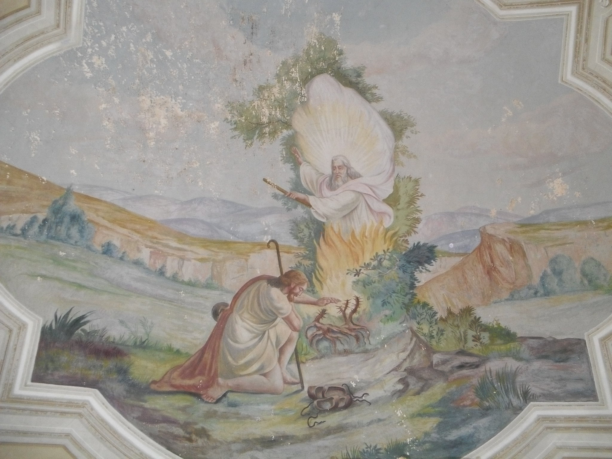 Moses and the afire thorn (Prekmurščina: Mojzeš i goréčni ščipkovi grm) mural in the Istvánfalvian Church